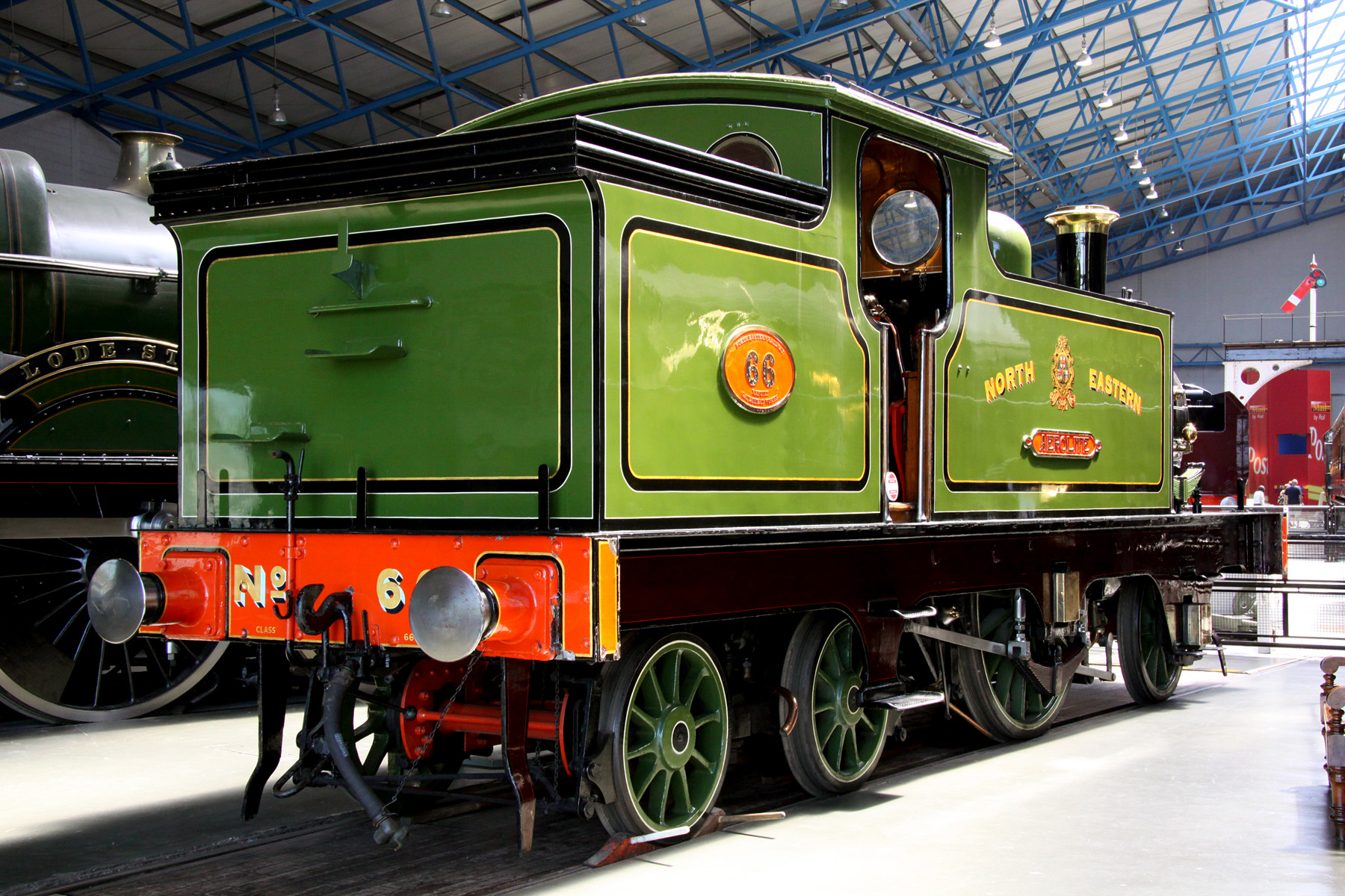 North Eastern Railway Worsdell rebuilt Fletcher 2-2-4T ?66? class locomotive number 66 AEROLITE on display in the great hall at the National Railway Museum, York. Monday 1st June 2009